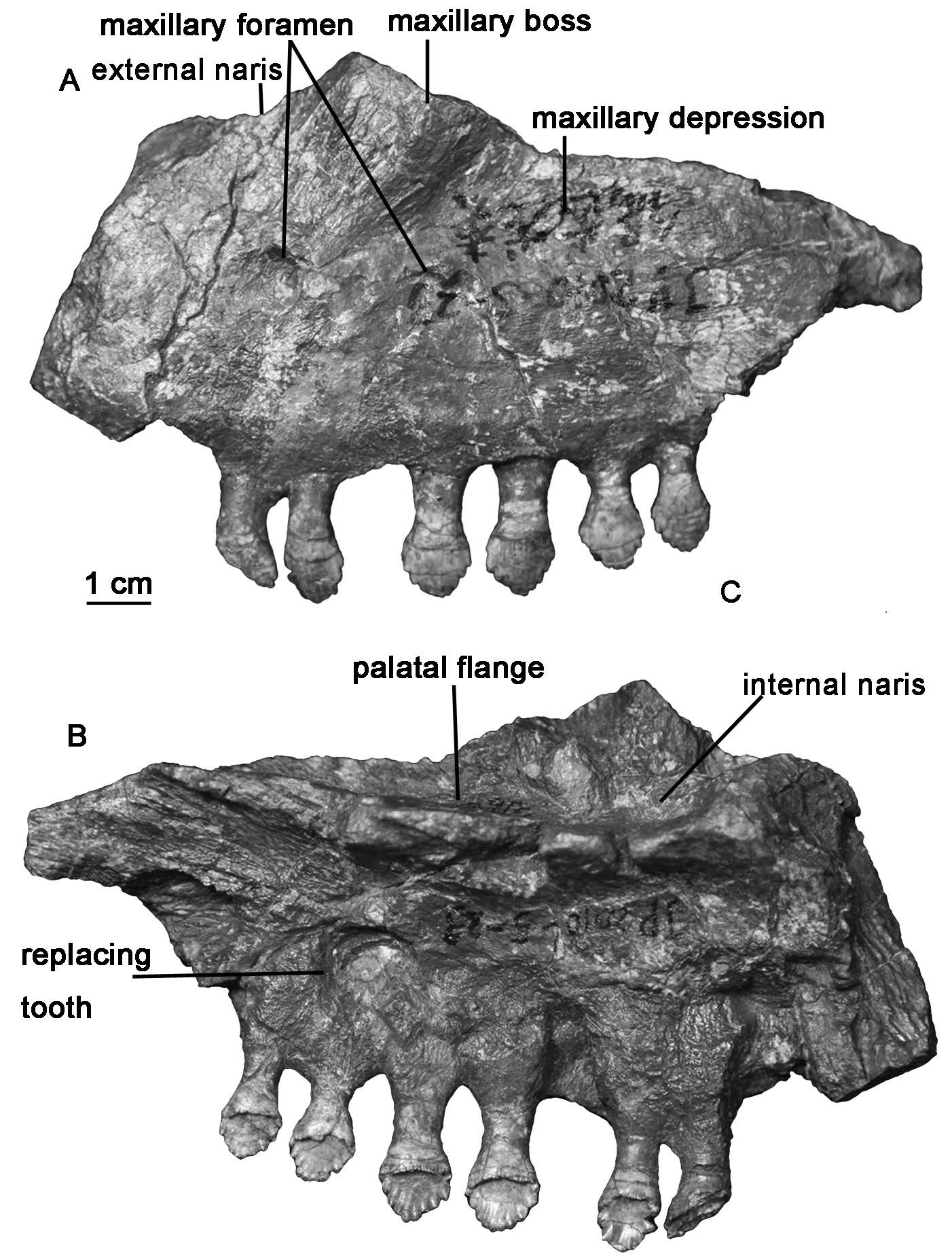 Honania complicidentata Young, 1979 (Upper Permian, Upper Shihhotse Formation of Jiyuan, Henan Province, China). HGM 41HIII 0423, left maxilla with teeth, in lateral (A) and medial (B) views.